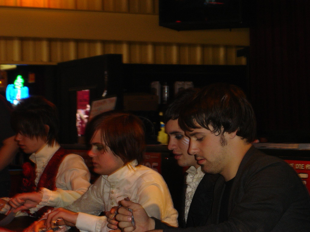 Panic! at the Disco, Ryan Ross, Spencer Smith, Brendon Urie, John Walker